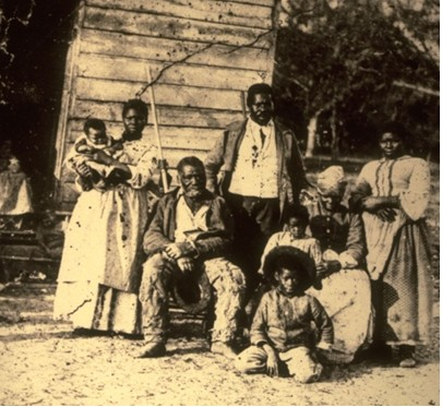 Cinco gerações na plantação de Smith, Beaufort, Carolina do Sul, 1862 - Foto de Timothy H. O'Sullivan (Fotográfo da Guerra Civil)